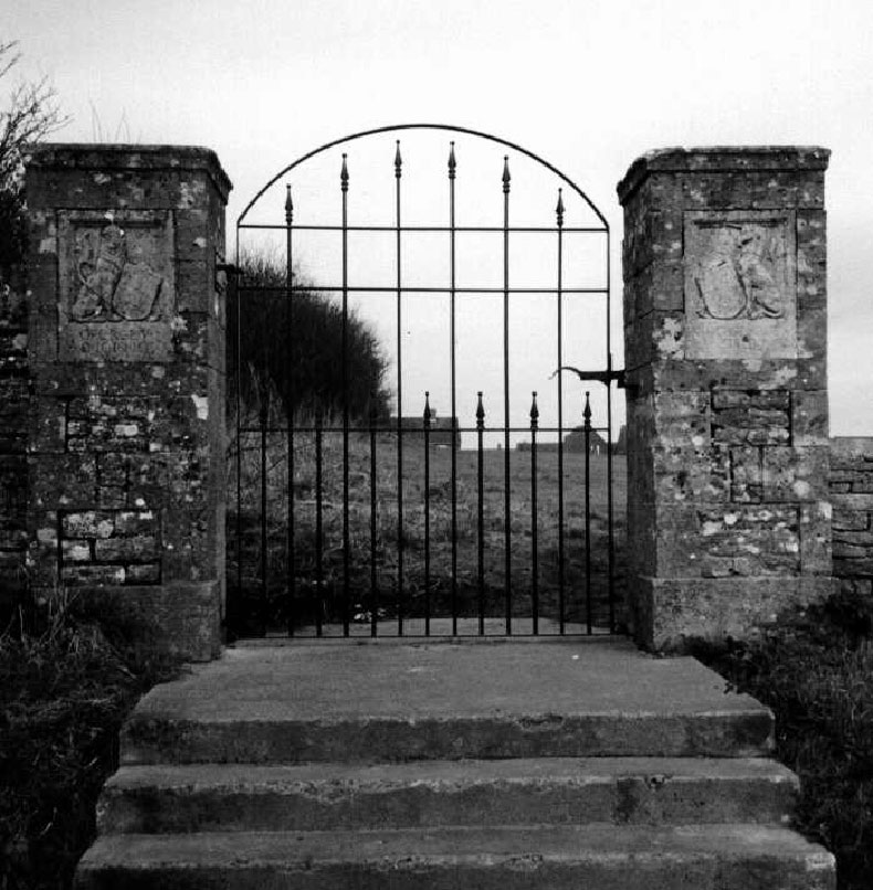 Stone gate piers and plaques at the entrance to King George V Fields